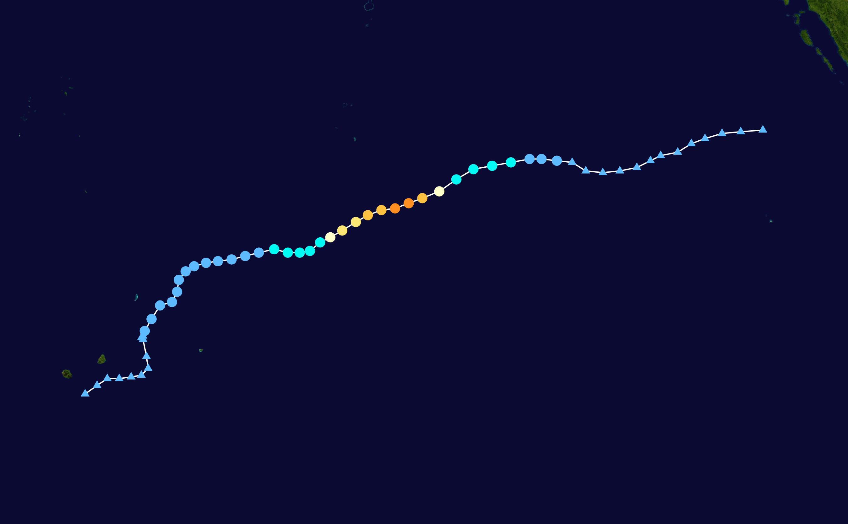 Track map of Intense Tropical Cyclone Cleo of the 2009-10 South West Indian Ocean cyclone season. The points show the location of the storm at 6-hour intervals. The colour represents the storm's maximum sustained wind speeds as classified in the Saffir–Simpson scale (see below), and the shape of the data points represent the nature of the storm, according to the legend below. Saffir–Simpson scale Tropical depression≤38 mph≤62 km/h Category 3111–129 mph178–208 km/h Tropical storm39–73 mph63–118 km/h Category 4130–156 mph209–251 km/h Category 174–95 mph119–153 km/h Category 5≥157 mph≥252 km/h Category 296–110 mph154–177 km/h Unknown Storm type Tropical cyclone Subtropical cyclone Extratropical cyclone / Remnant low / Tropical disturbance / Monsoon depression